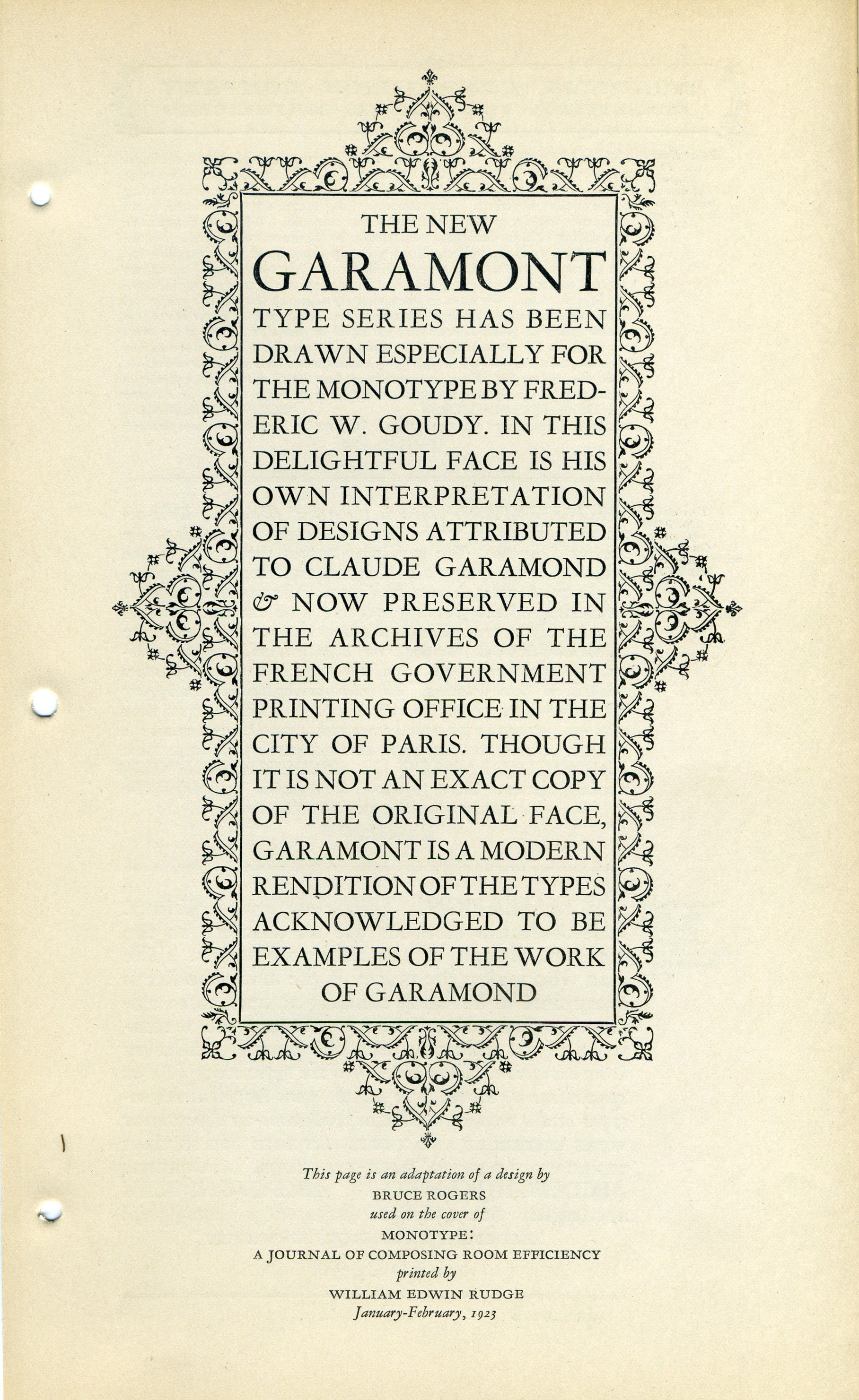 A specimen set by Bruce Rogers of Monotype's Garamont type in 1923. (The typeface it's based on actually has nothing to do with Garamond - it was created by Jean Jannon after Garamond's death.) Image is from 1923 - I haven't pinned down the exact source of this reprint but copyright was not renewed on the journal that the specimen was first printed in.